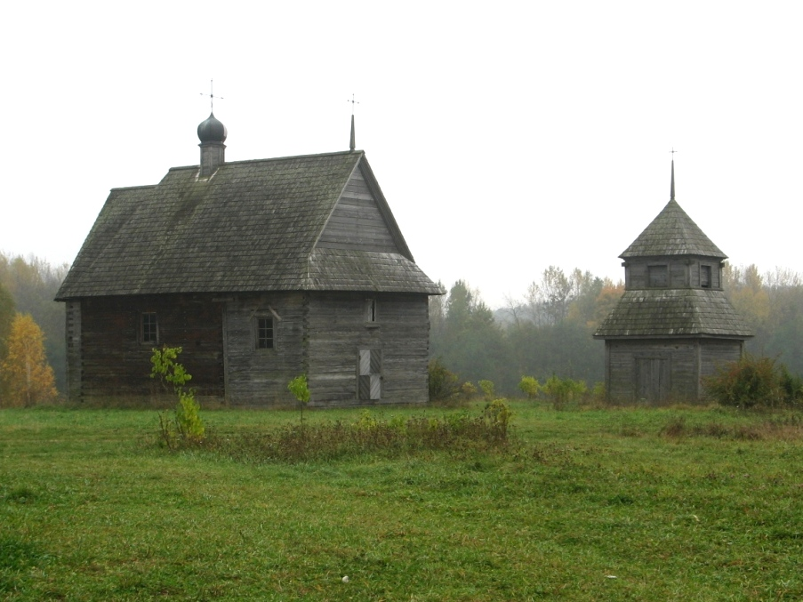 State museum of folk architecture and life, Belarus